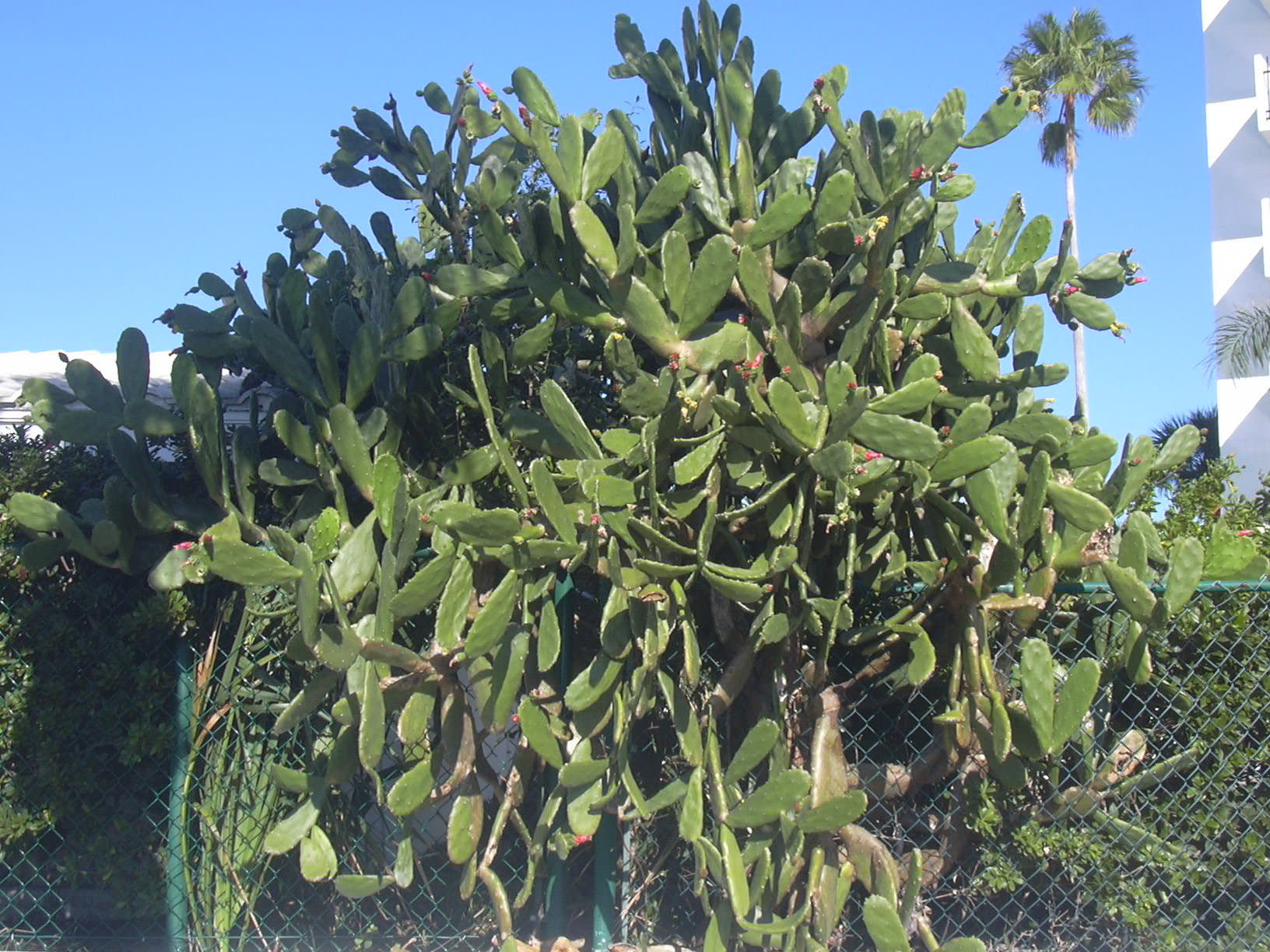 Opuntia cochenillifera (habit). Location: Florida, Lido Beach